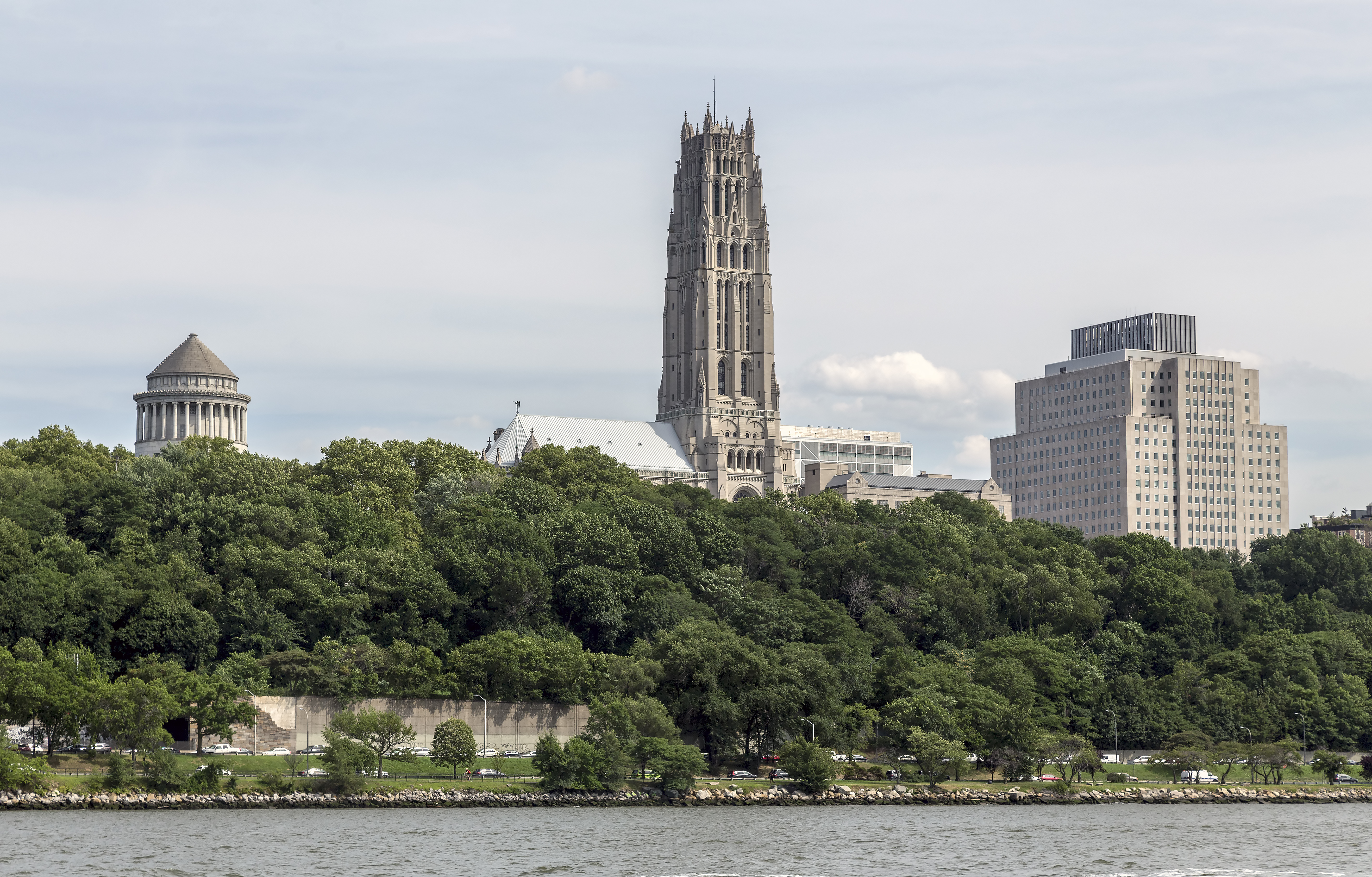 Grant's Tomb, Riverside Church and the Interchurch Center with Riverside Drive below, seen from the Hudson River